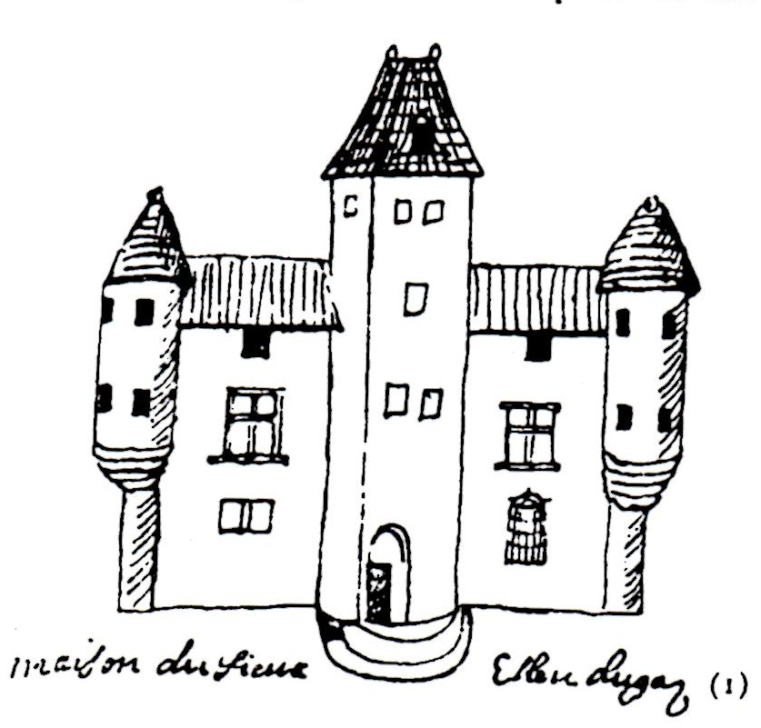 House of Lord Dugaz